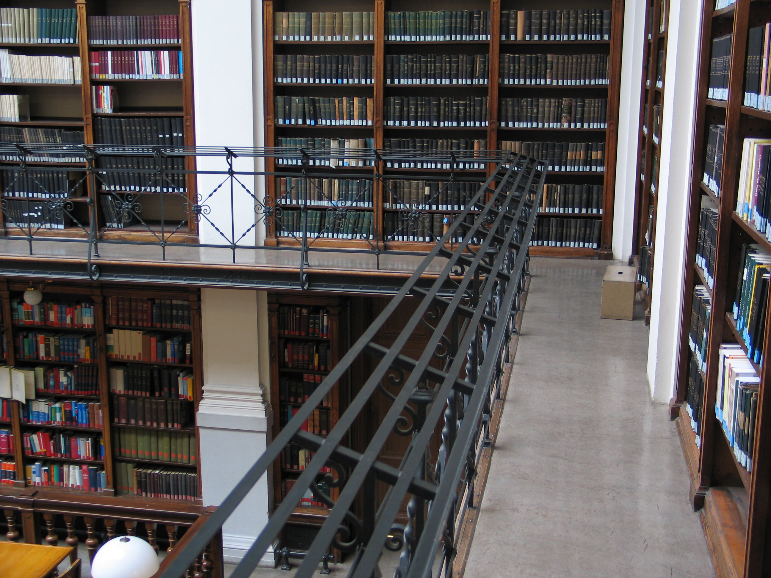 Gallery in the main reading room of the University Library of Graz, Austria. Picture taken (29 Dec 2005) and uploaded by Dr. Marcus Gossler.